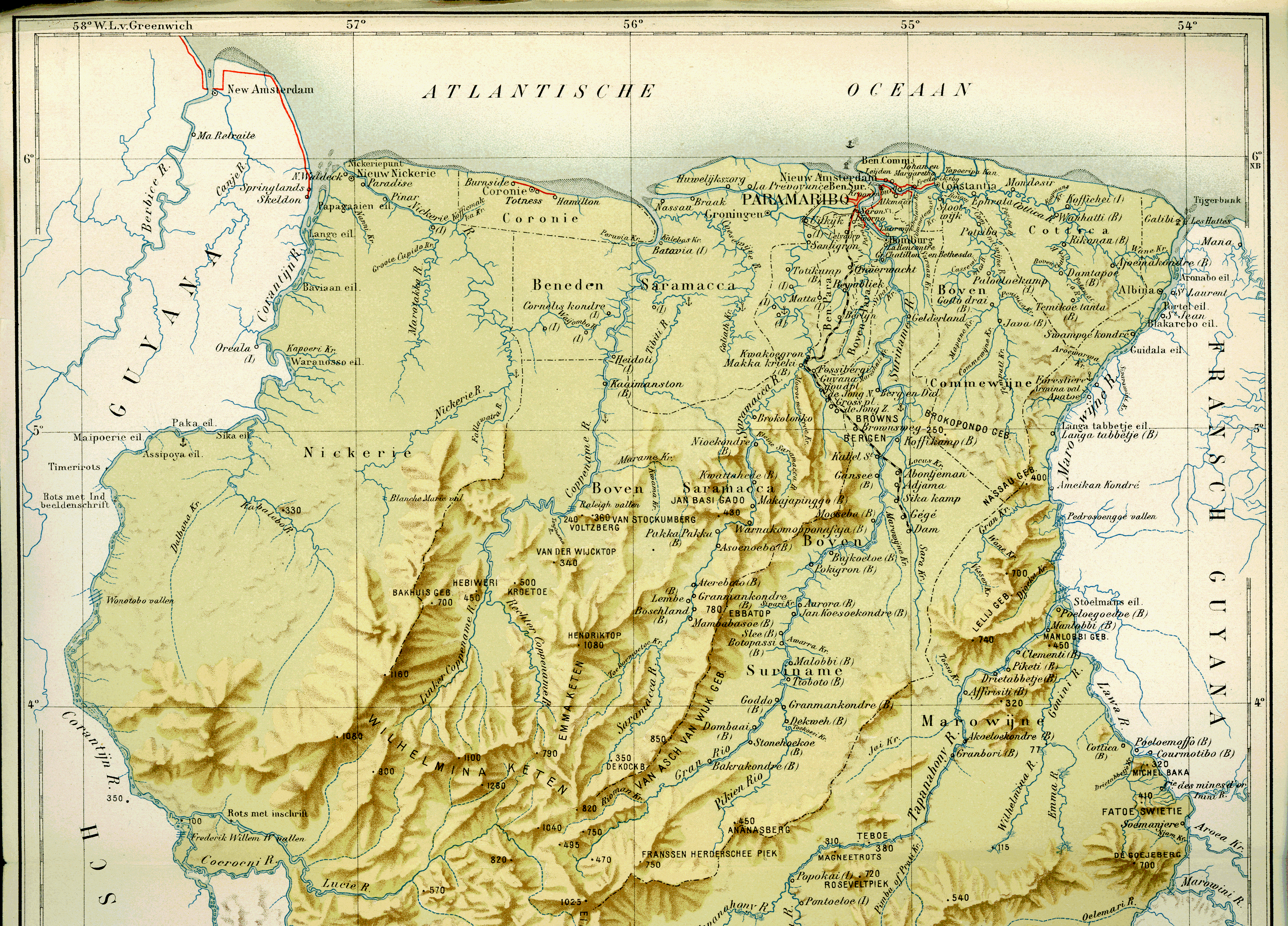 Kaart I, behoorende bij de Encyclopaedie van Nederlandsch West-Indië. Suriname. (northern part)